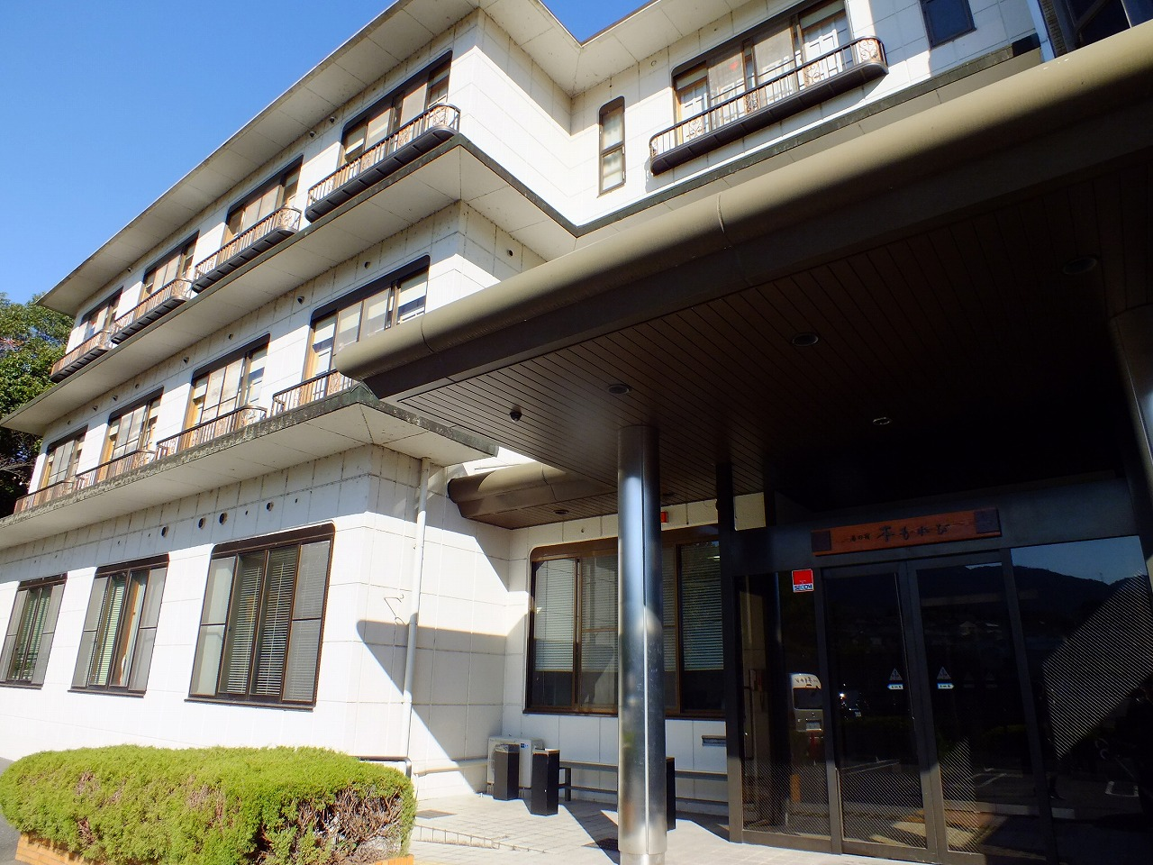 湯の宿 木もれび 〒520-0102 滋賀県大津市苗鹿2-30-1 TEL:077-579-8585 FAX:077-579-6581